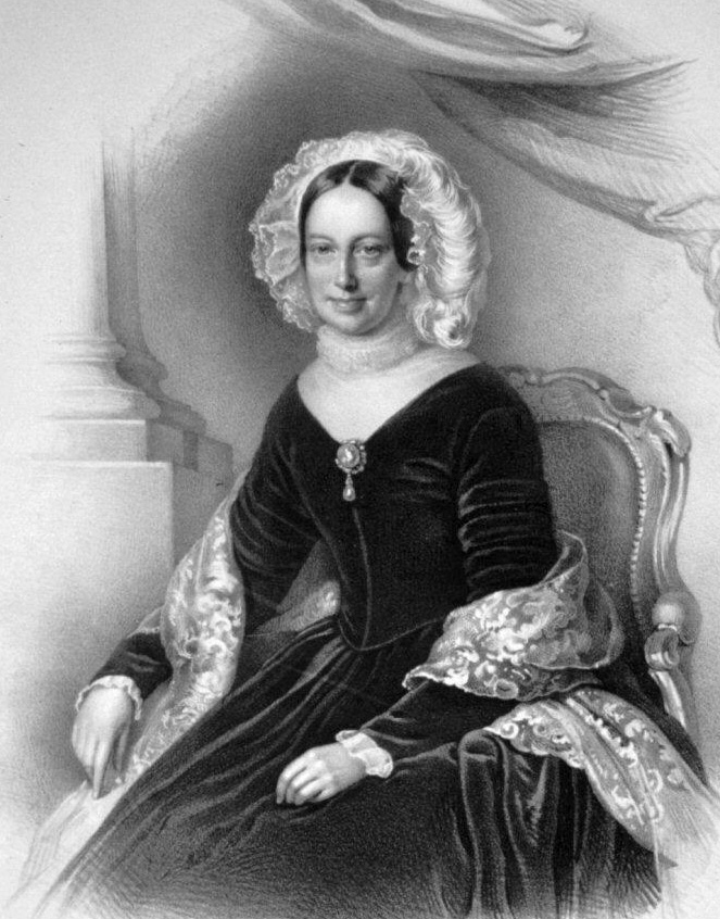 Marie-Louise of Austria, Duchess of Parma, lithographic work by Joseph Kriehuber